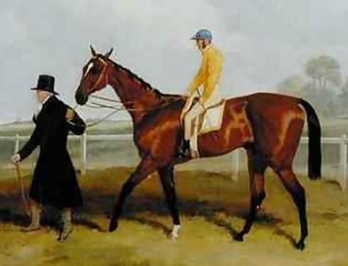 Sir Tatton Sykes (human), leads in Sir Tatton Sykes (horse) after the 1846 St Leger. Painting by Harry Hall.1814-1882. Artist dead for 132 years.